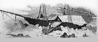 The Advance, Second Winter; 1855. Image from Arctic explorations: The second Grinnell expedtion in search of Sir John Franklin, 1853,54,55.